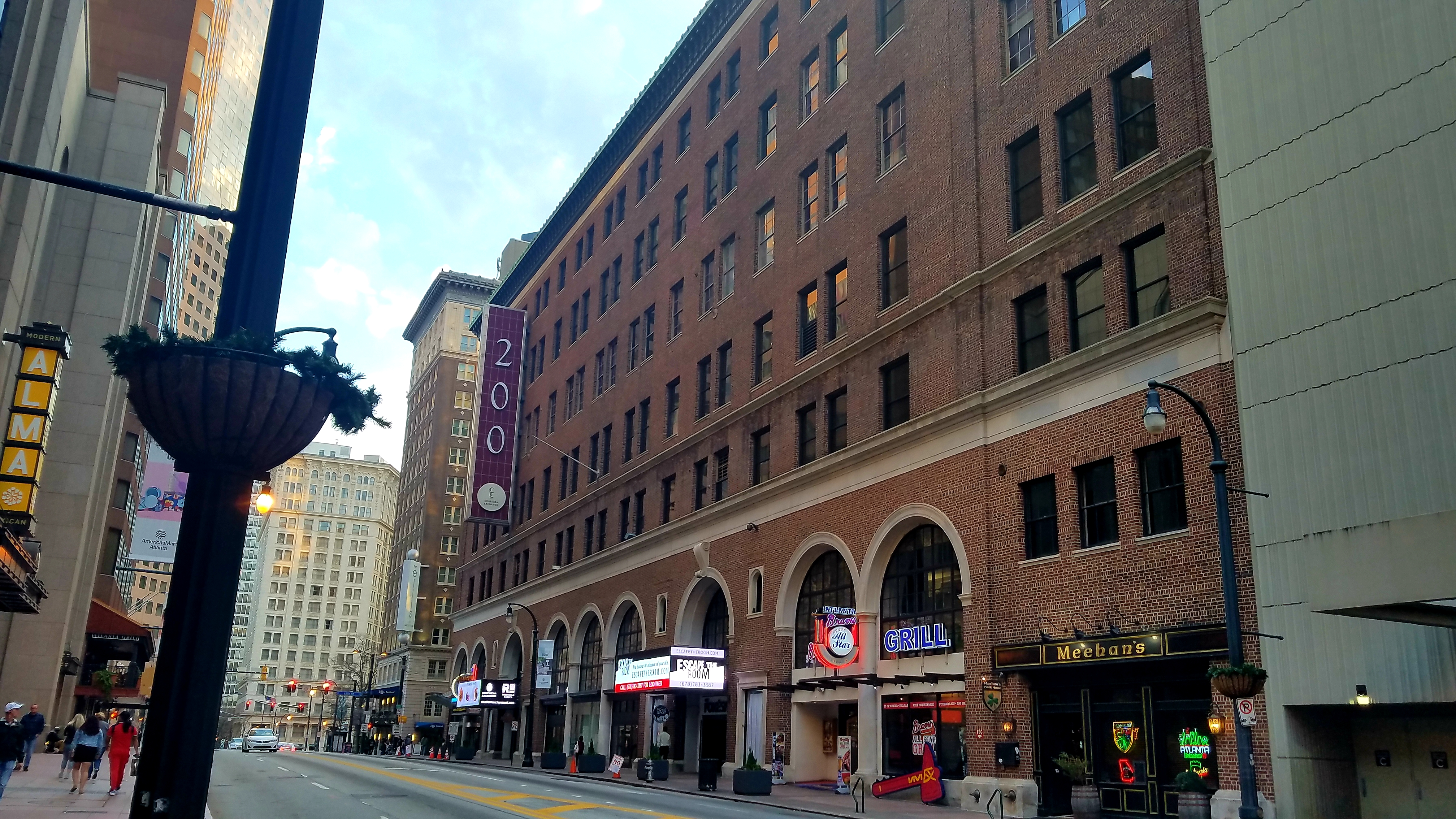 200 Peachtree Building in Atlanta, Georgia.